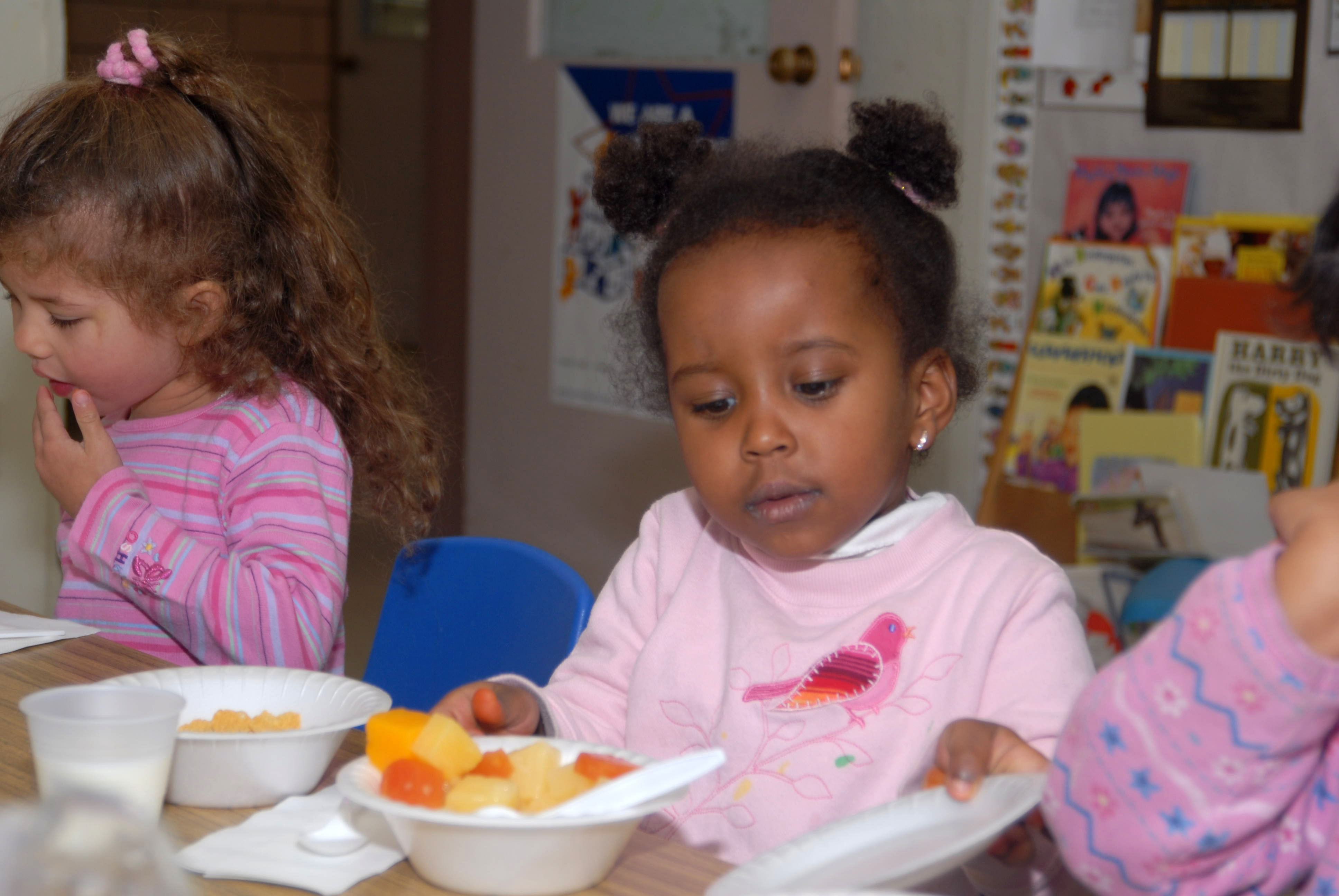 Youngsters at the Higher Horizons Day Care Center in Bailey Crossroads, VA., receive healthy food and snacks on October 25, 2006 under the U.S. Department of Agriculture (USDA) Food Nutrition Service’s (FNS) Child and Adult Care Food Program (CACFP) and Head Start program. CACFP plays a vital role in improving the quality of day care for children and elderly adults by making care more affordable for many low-income families. Each day, 3.2 million children receive nutritious meals and snacks through CACFP. USDA photo by Ken Hammond.